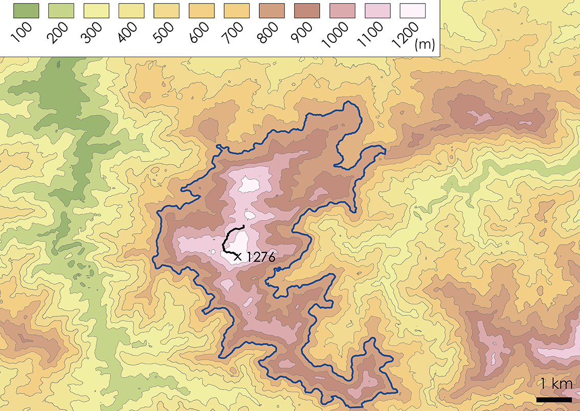 Deux Mamelles topographic map detail